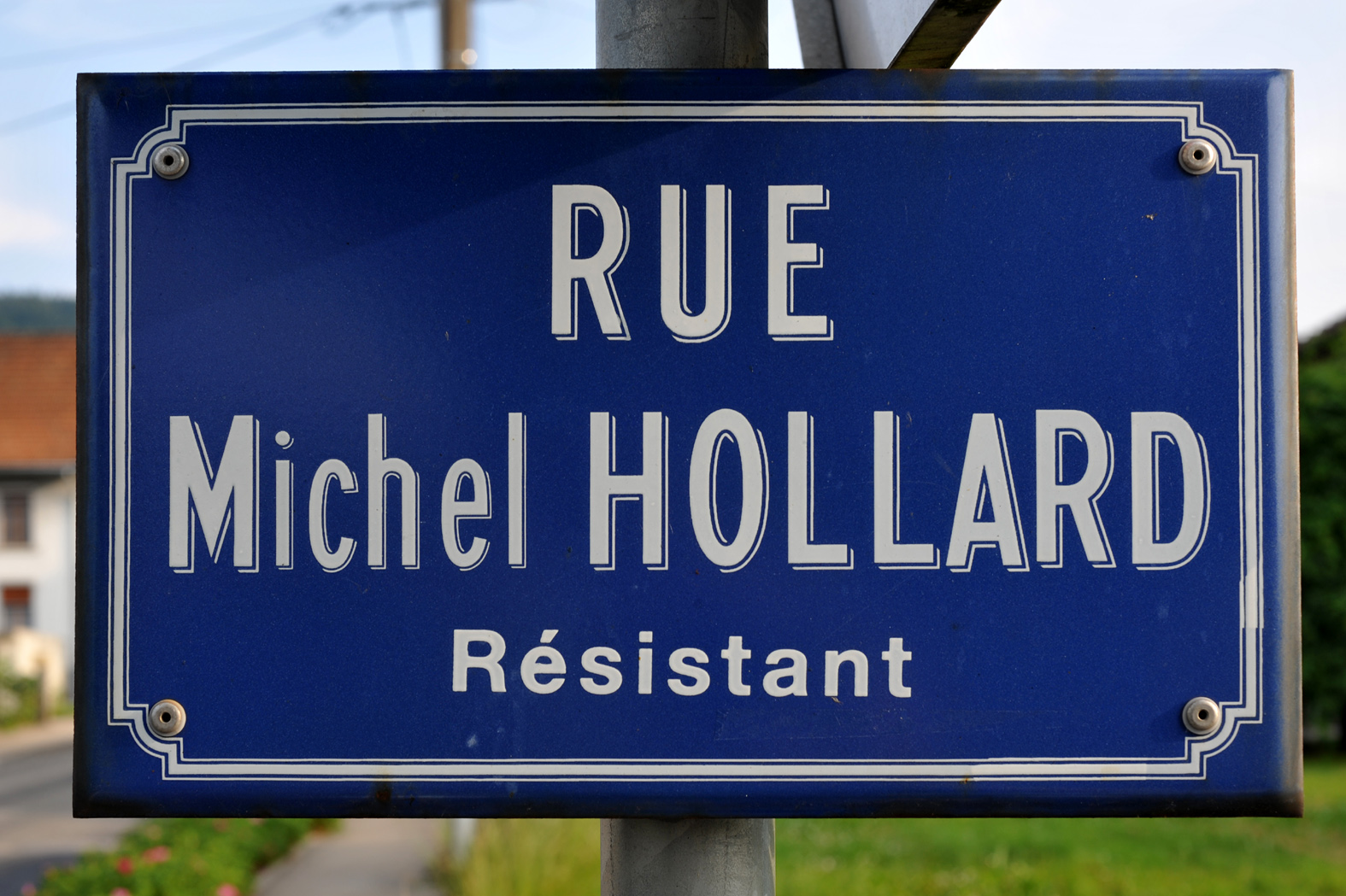 Rue Michel Hollard in Montlebon; Doubs, France.